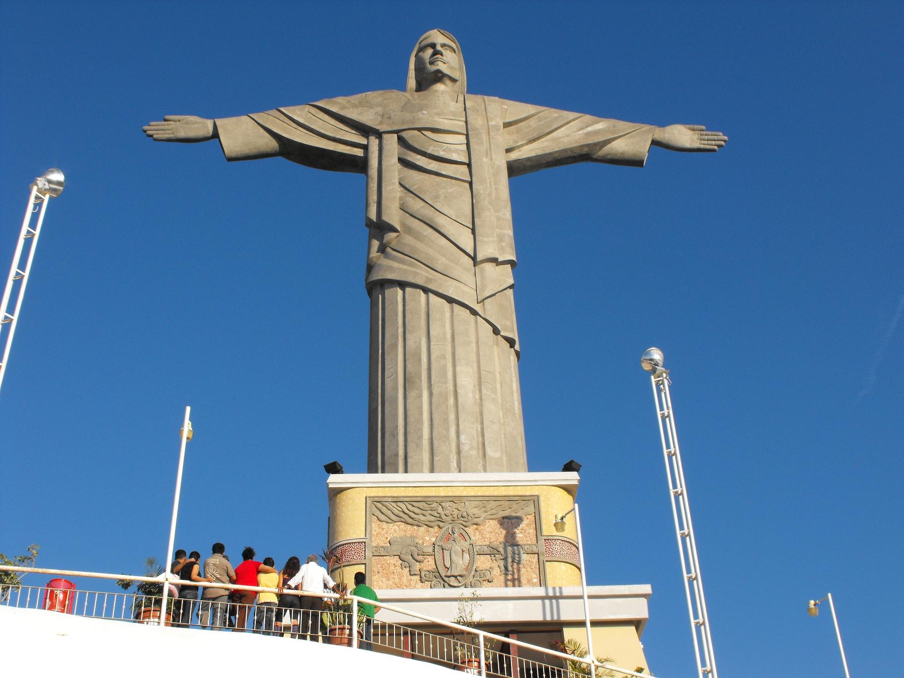 Cristyo redentor, tihuatlan